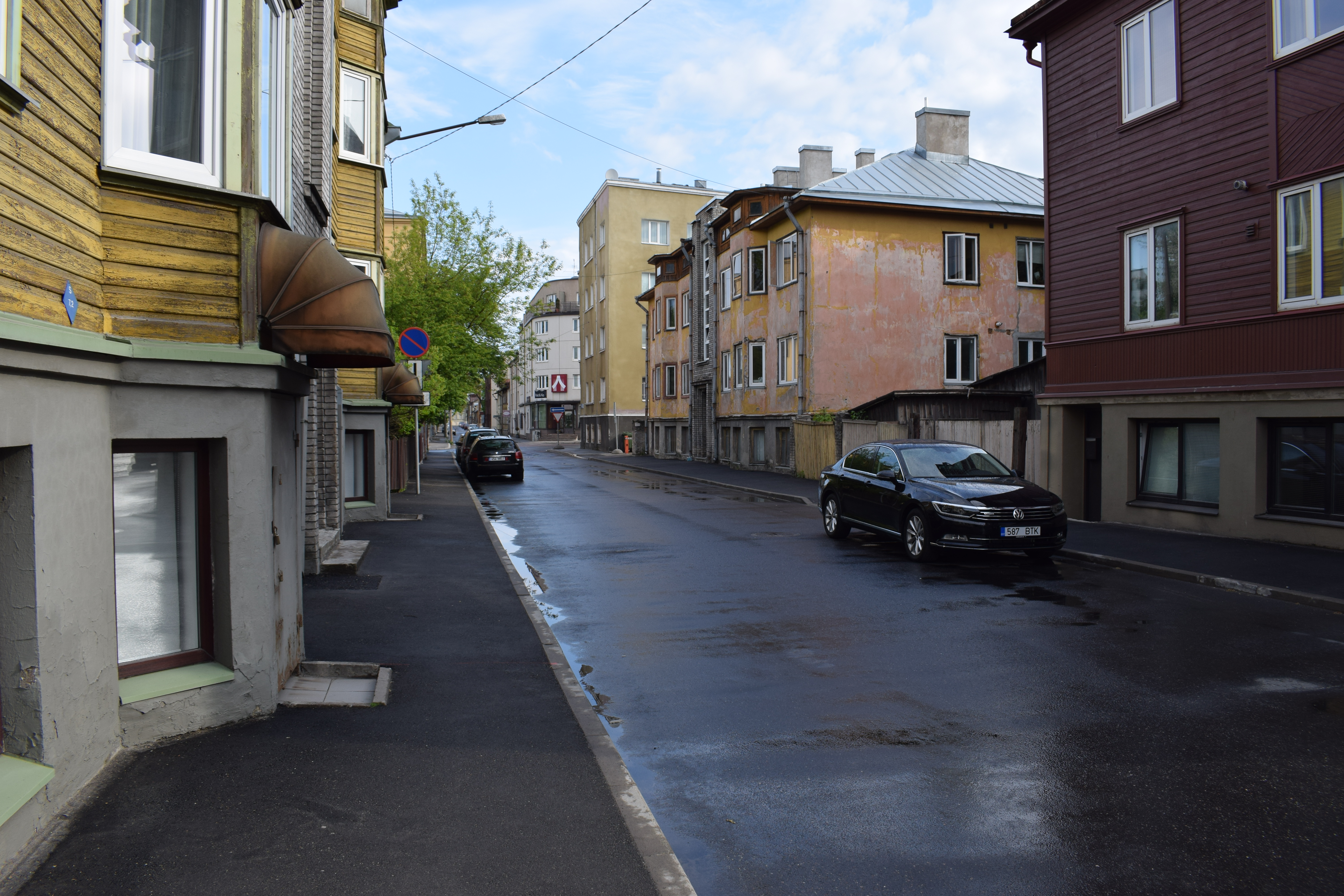 Villardi street